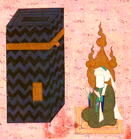 The Prophet Mohammed (figure without face) at the Kaaba in Mecca. Ottoman miniature painting from the Siyer-i Nebi, kept at the Topkapı Sarayı Müzesi, Istanbul (Hazine 1222, folio 151b)